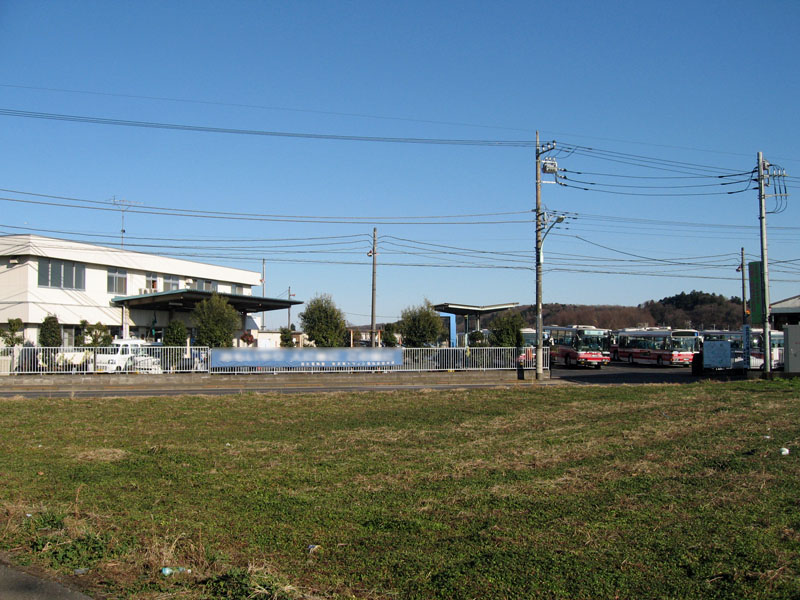 Tachikawa Bus Mizuho Depot, Mizuho, Tokyo, Japan